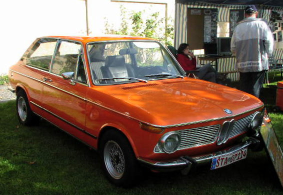 BMW 1800 touring